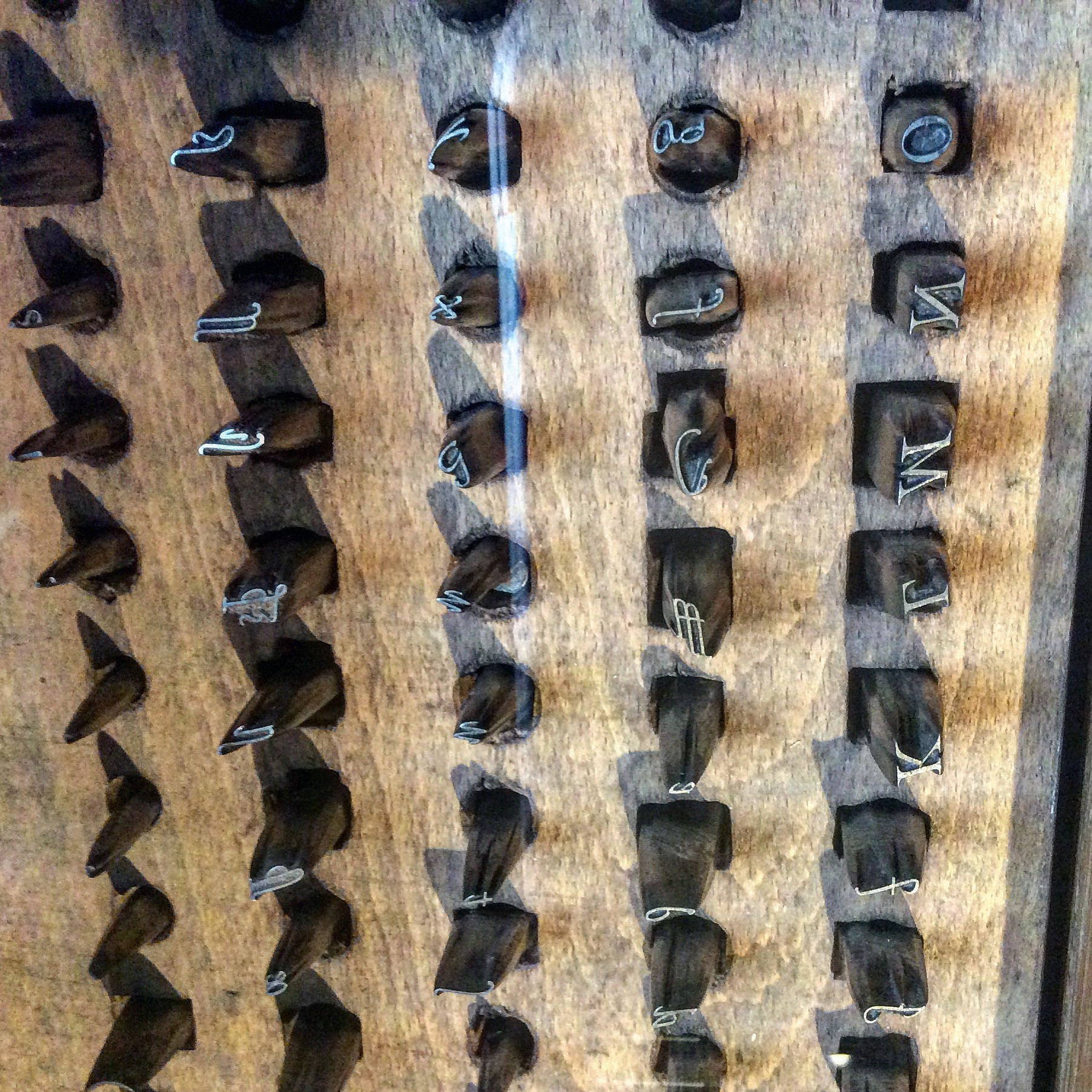 Original Punches made by Robert Garamond Plantin-Moretus Museum Belgium